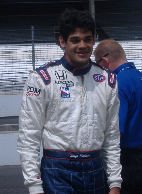 Taken by me at the 2006 Indianapolis 500 Miller Lite Carb Day in Indianapolis, Indiana.